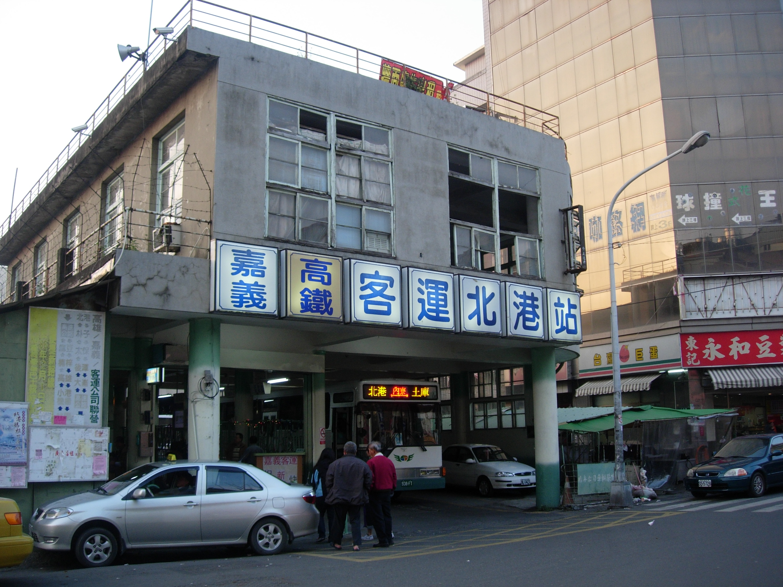 Chia-yi Bus Peikang Station Left中文（台灣）: 嘉義客運北港站左面。